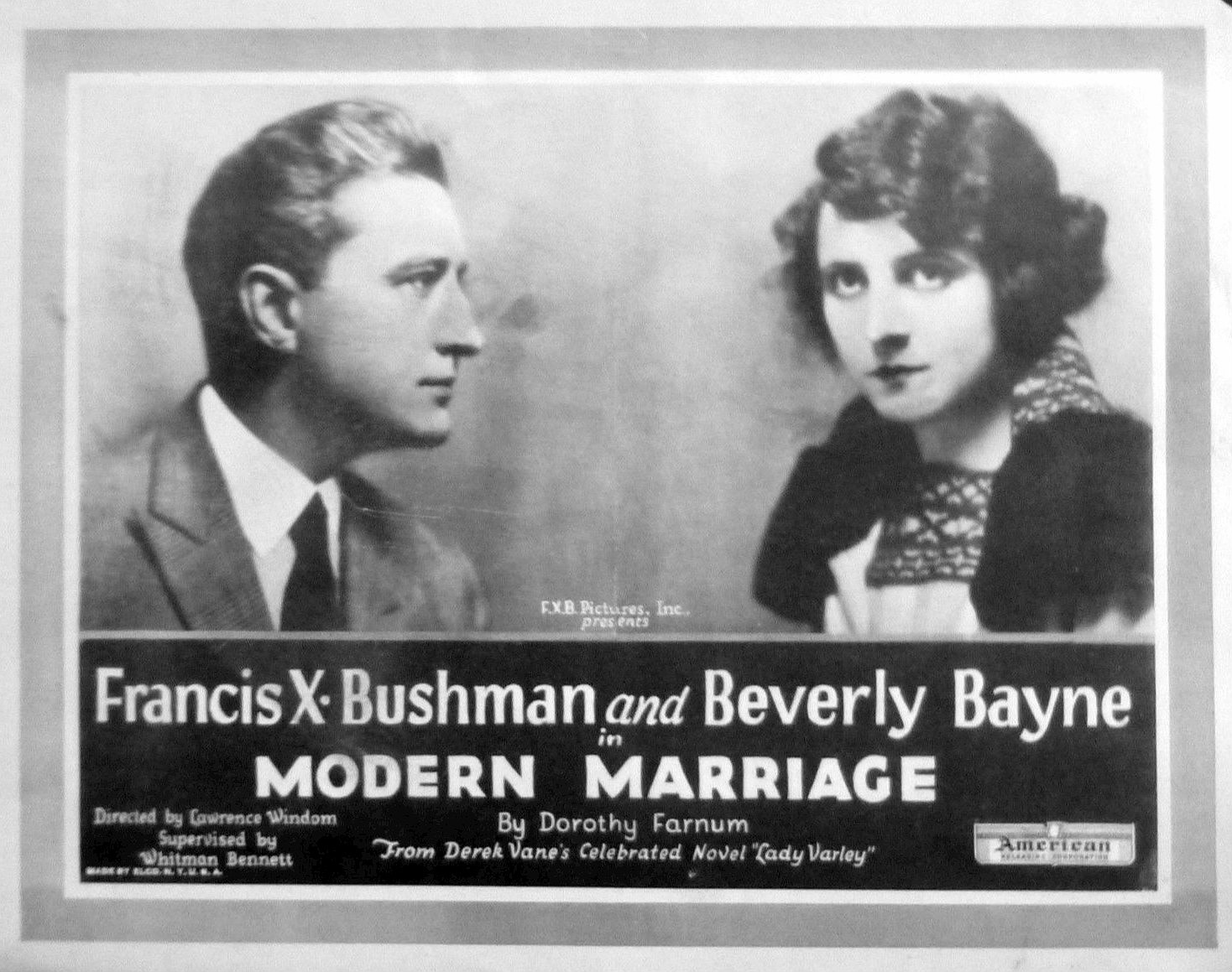 Lobby card for the American crime drama film Modern Marriage (1923). There are no copyright marks on the card; an uncropped copy is seen at the link above. Copy between photos reads "F.X.B. Pictures, Inc. Presents" (Bushman's company). At lower left is Made by Elco NY USA. (Believe this is the company which printed the card). At lower right is the American Releasing Company's logo.